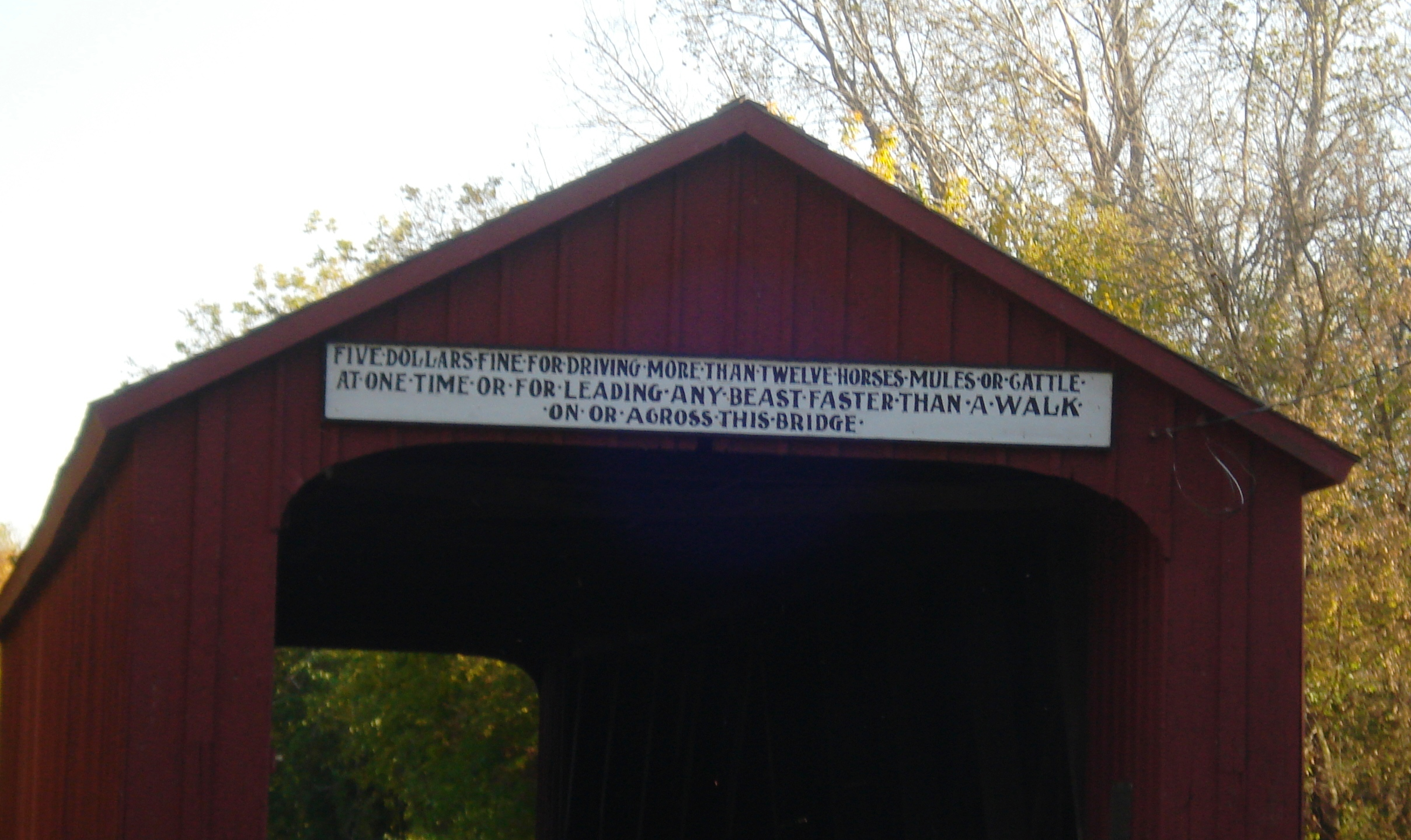 Red Covered Bridge North of Princeton, IL.